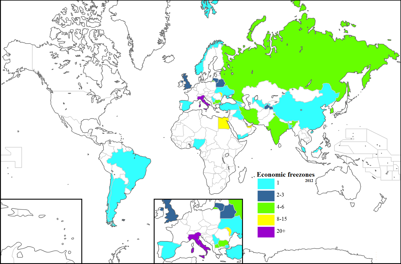 A map which displays which countries have free economic zones, and where there are the most. Based on Free_economic_zone from 2/29/2012 read 14:15Norsk bokmål: Verdenskart som viser hvilke land det er økonomiske frisoner i, og hvor mange. Kilde: lest 29/2/2012 klokken 14:15